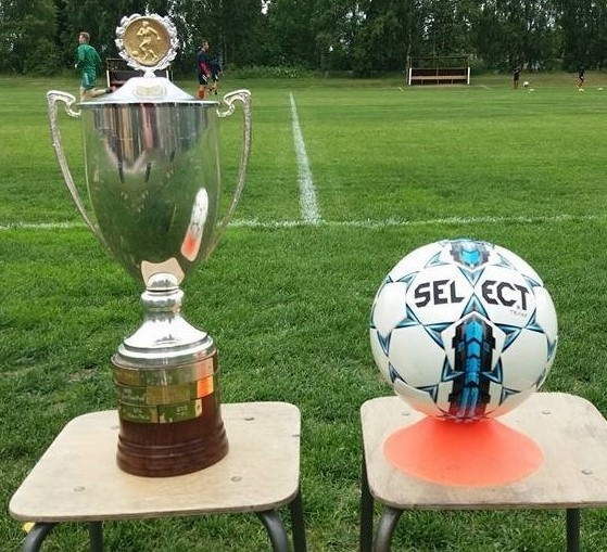 Toejoki Football Ground, Pori, Finland. Final of the 2017 TUL Cup, ToVe vs. FC Atlantis. The 1920 established TUL Cup is the annual football championship competition of the Finnish Worker's Sport Federation.